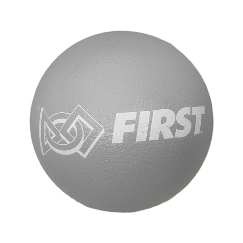 Game piece for FIRST stronghold 2016